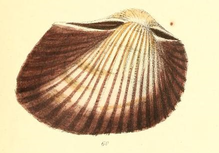 Anadara antiquata (Linnaeus, 1758), Arcidae, Bivalvia, from Reeve, 1844: Conchologia Iconica, pl. 9 fig. 60